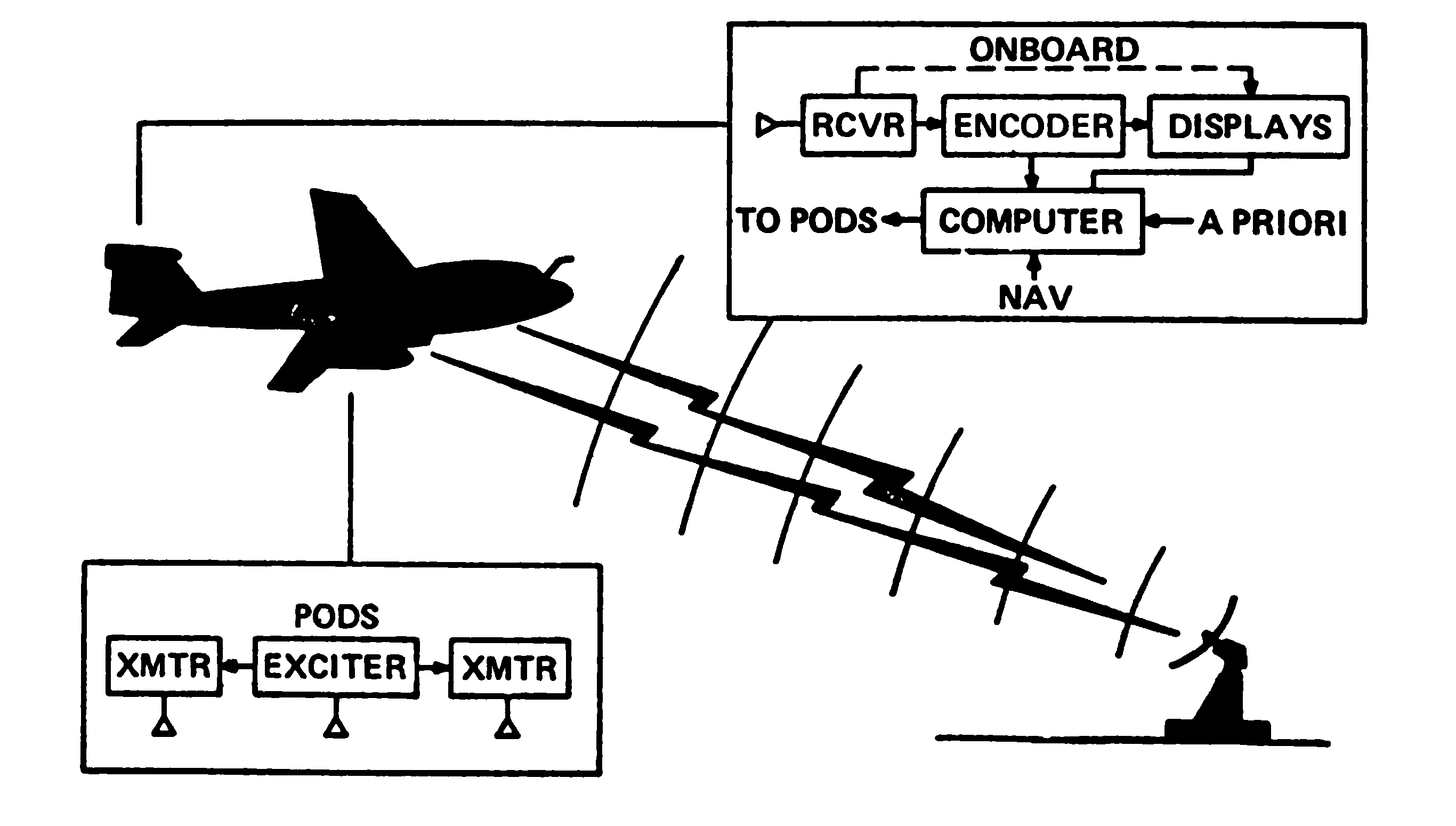 EA-6B tactical jamming system